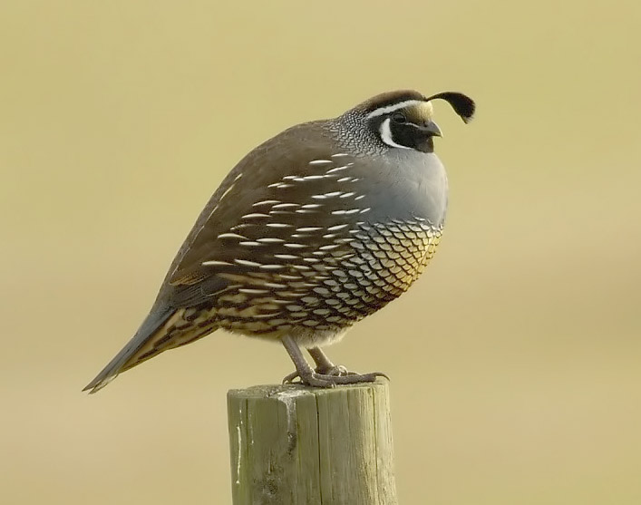 California quail, adult male. Photographed in Point Reyes National Seashore, California